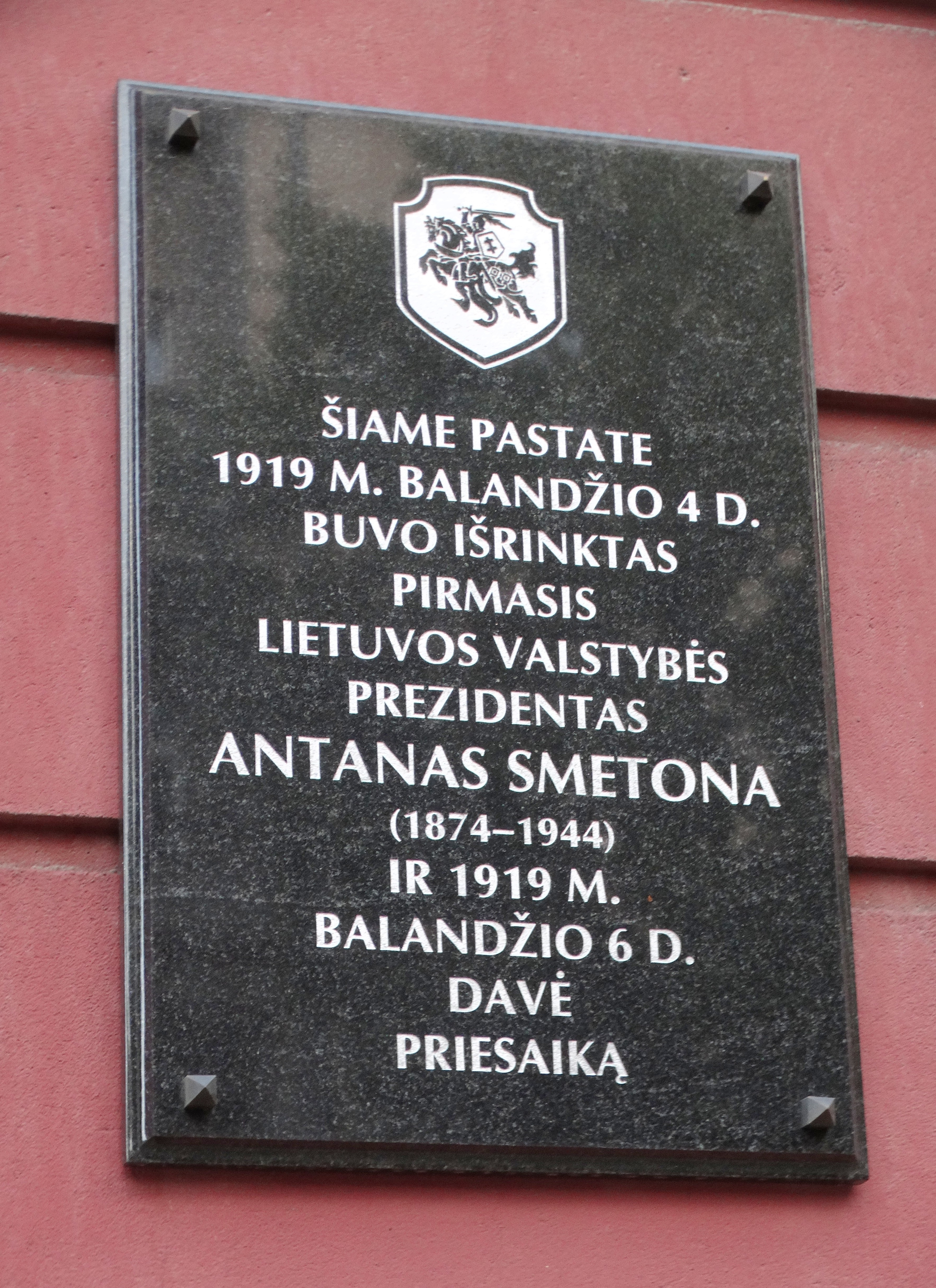 Memorial plaque to Antanas Smetona (in this house took the President's oath), Kaunas, Lithuania